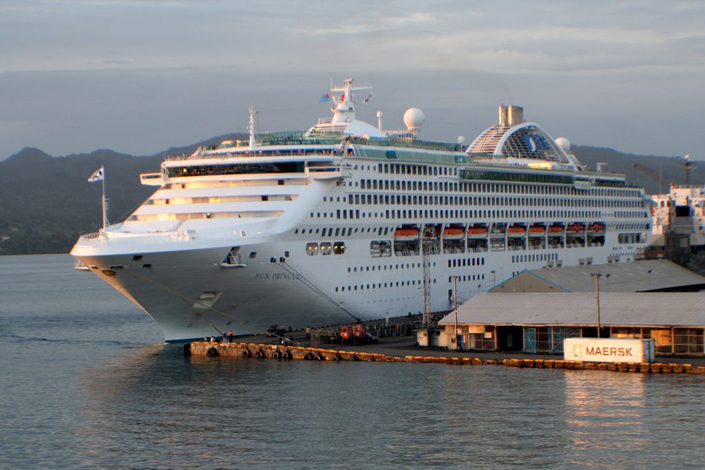 Sun Princess docked at the Kings Wharf, Suva, Fiji Islands IMO Number: 9000259 MMSI Number: 310438000 Callsign: ZCBU6 Length: 261 m Beam: 32 m